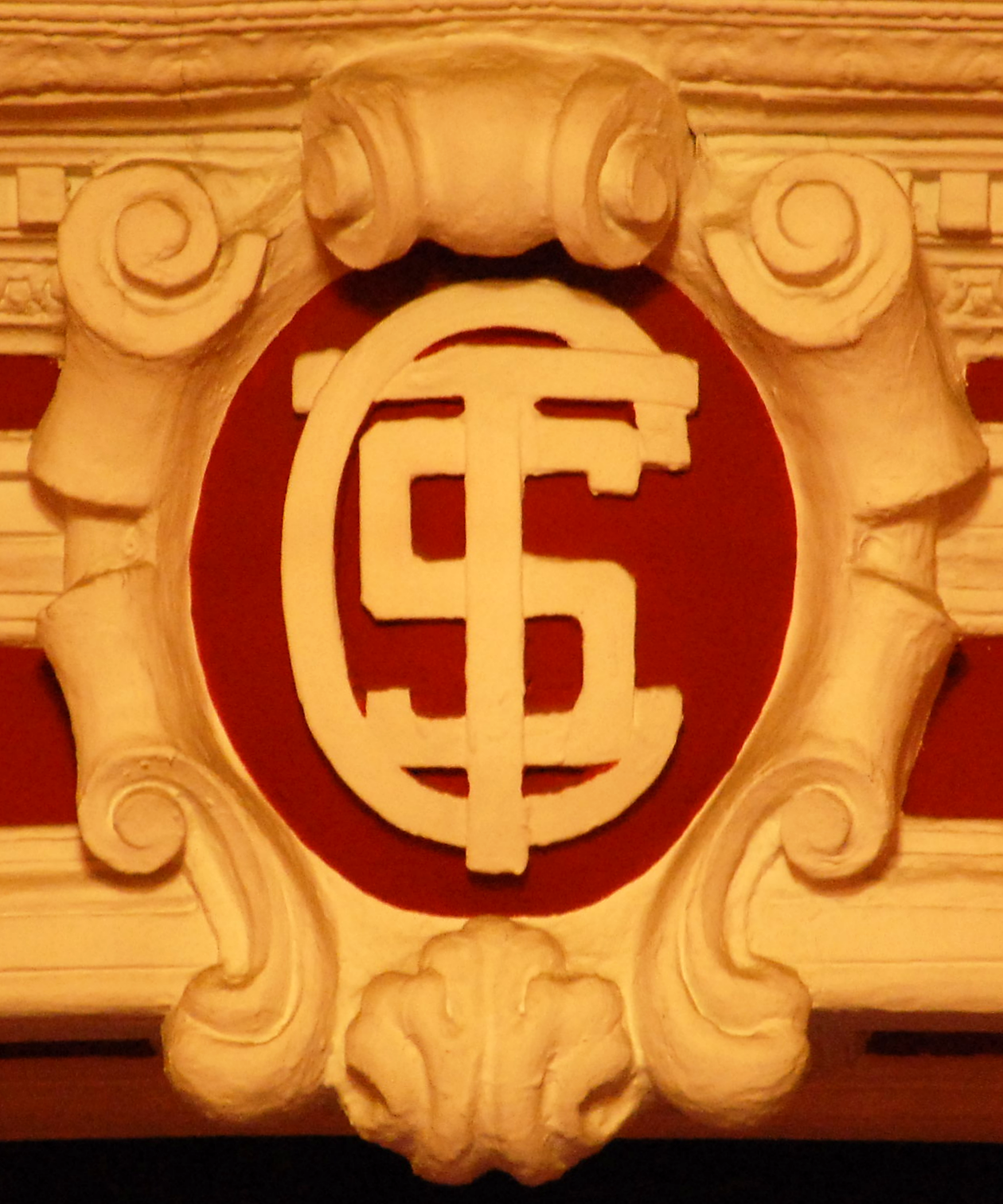 Logo of Teatro Salón Cervantes in Alcalá de Henares (Community of Madrid - Spain).